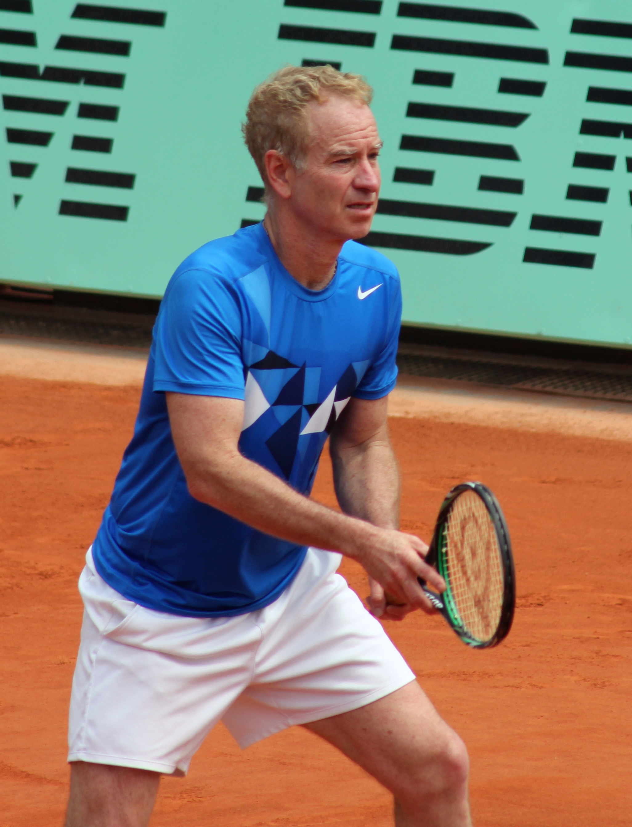 John McEnroe at the 2012 French Open – Legends Over 45 Doubles